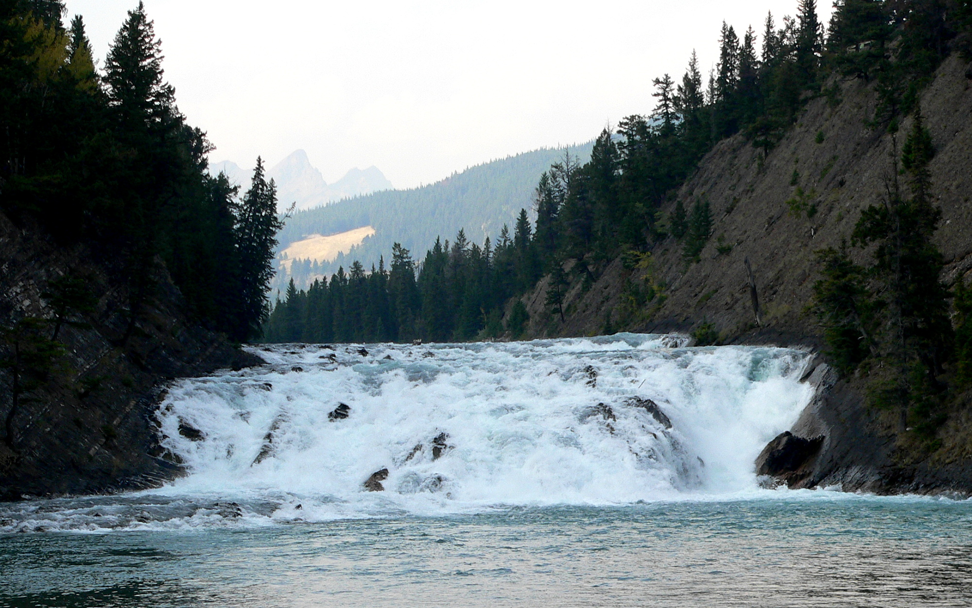 Bow Falls on the Bow River near the Banff townsite in Alberta, Canada. Photo taken with a Panasonic Lumix DMC-FZ20.